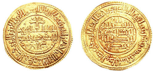 SPAIN, Castile. Alfonso VIII of Castile. 1158-1214. AV Maravedí, equivalent to the Almoravid dinar (3.86 g, 4h). Toledo (Tulaitula) mint. Dated in the year 1229 of the Spanish Era, i.e. 1191 AD. "Imam al-bi'a al-masihiya Baba" in two lines across field; cross above, ALF below; "Bismillahi wa al-ibni wa al-ruhi al-quddus Allah al-wahidun min umana' wa ta'amad yakun salima" in outer margin; annulets flanking upper bar of cross and ALF, third annulet in upper left field "Amir/al-qatuliqin/Alfuns bin Sanya/ayadahu Allah/wa nasarahu" in five lines across fields; "Struck was this dinar in Toledo (Tulaitula) in the year nine and twenty and two hundred and one thousand of the Safar era" in outer margin. Gómez 162; ME 1004; Friedberg 101. EF, light coppery toning.